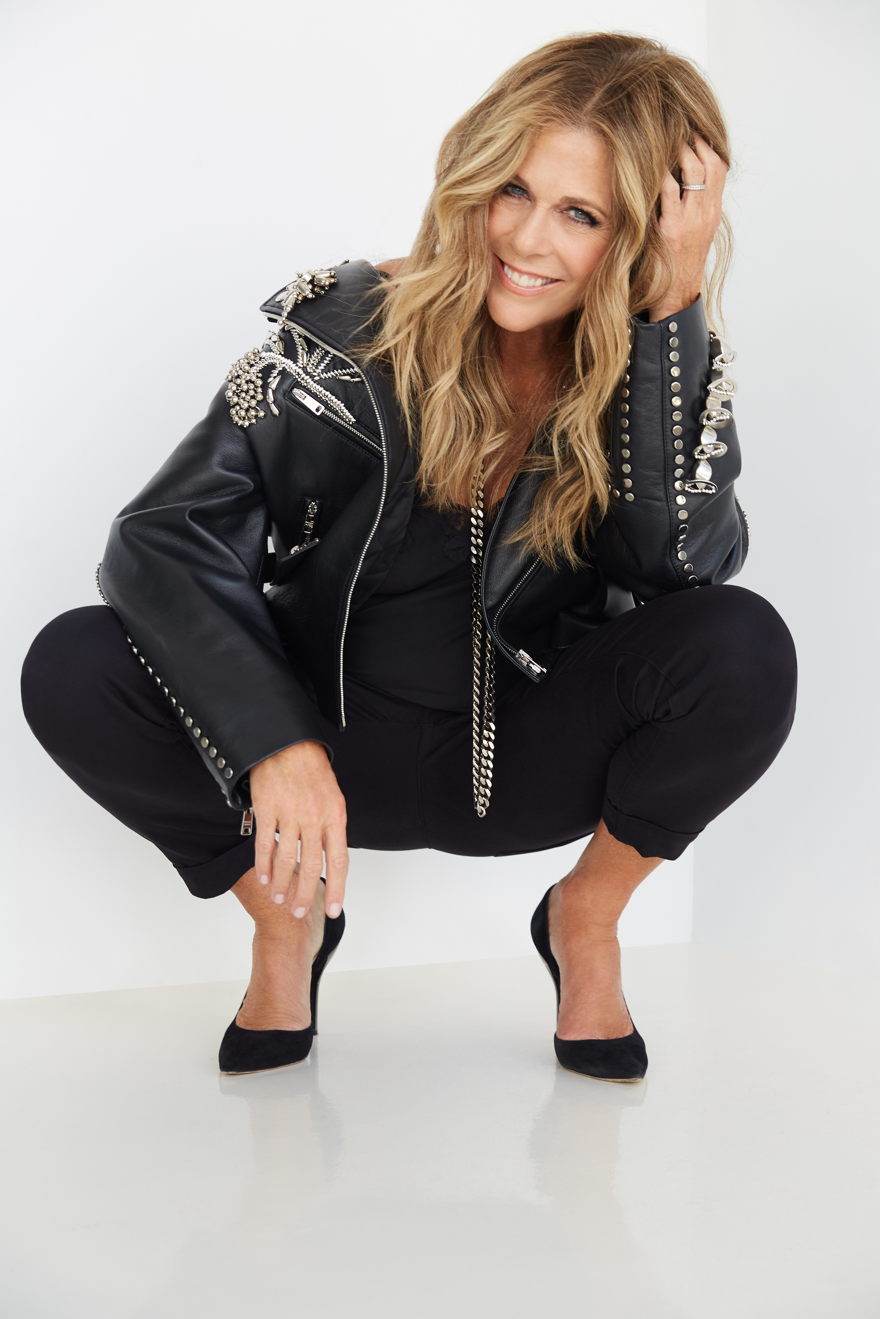 Publicity photo of Rita Wilson shot by Jim Jordan